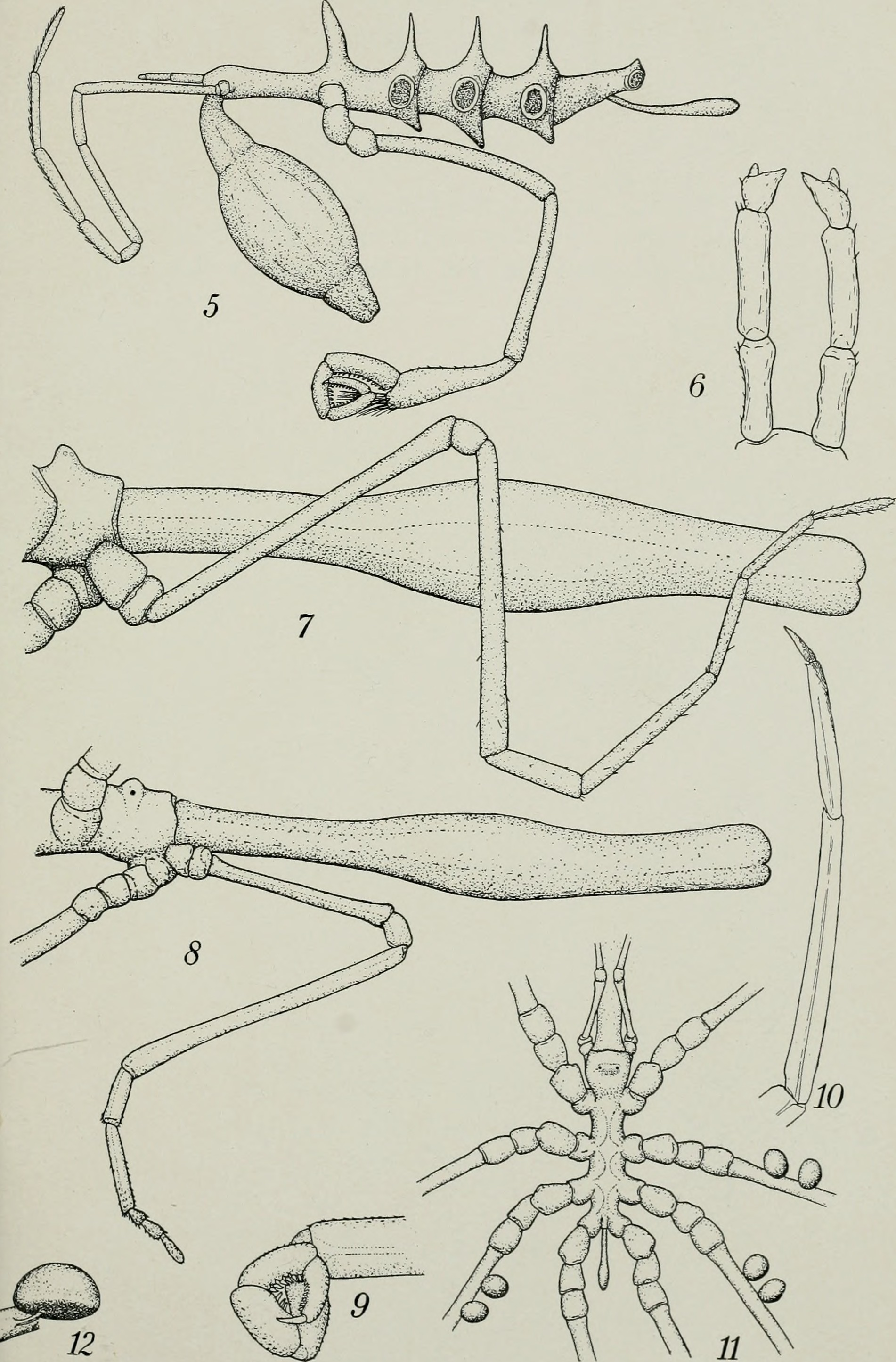 Title: Bulletin of the Museum of Comparative Zoology at Harvard College Year: 1863 (1860s) Authors: Harvard University. Museum of Comparative Zoology Subjects: Zoology; Zoology Publisher: Cambridge, Mass. : The Museum Text Appearing Before Image: "Albatross" E. Pacific Ex. Pycnogonida. Pl. 3 Text Appearing After Image: J^